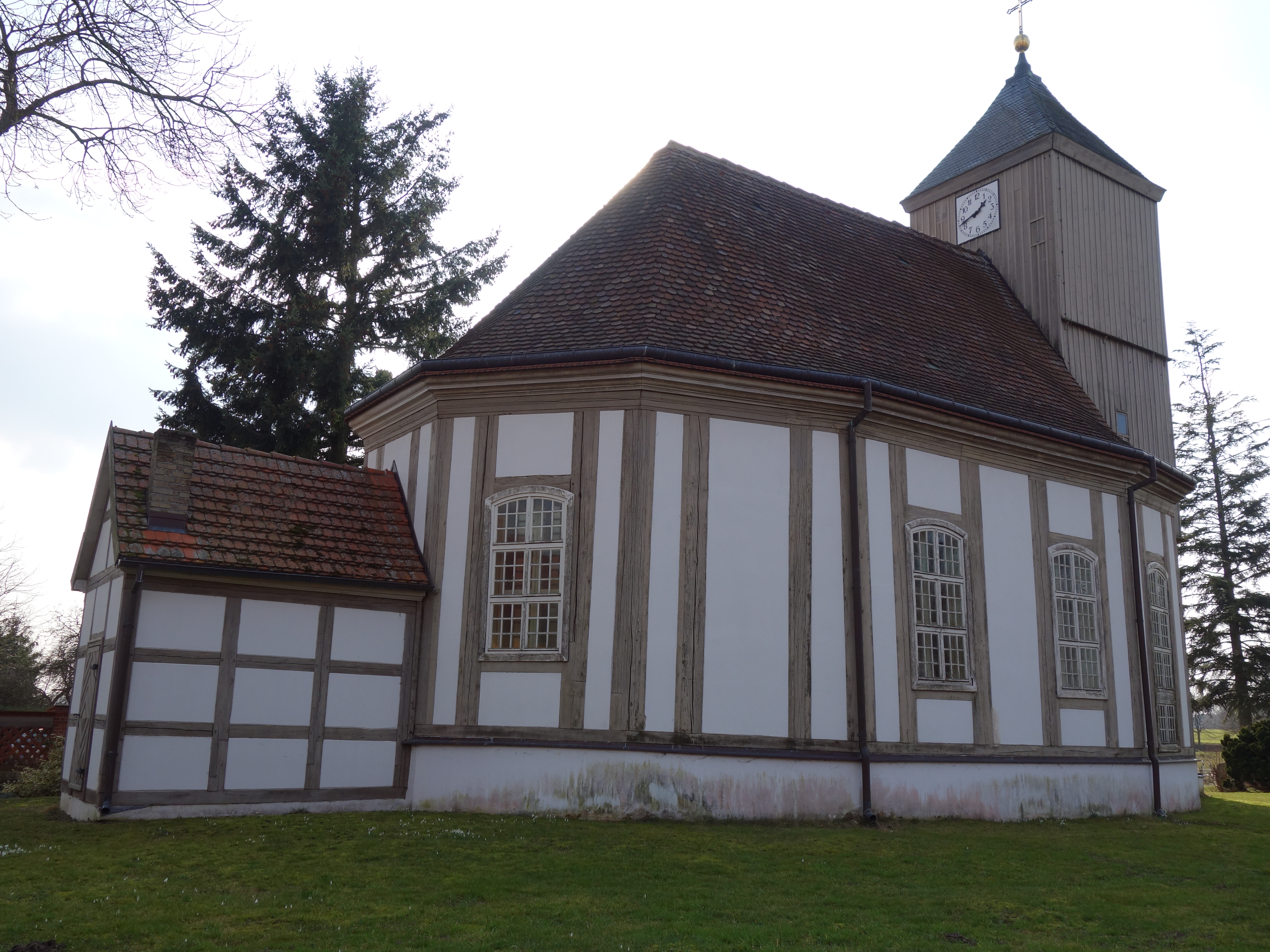 North-eastern view of Storbeck church, Storbeck-Frankendorf municipality, Ostprignitz-Ruppin district, Brandenburg state, Germany